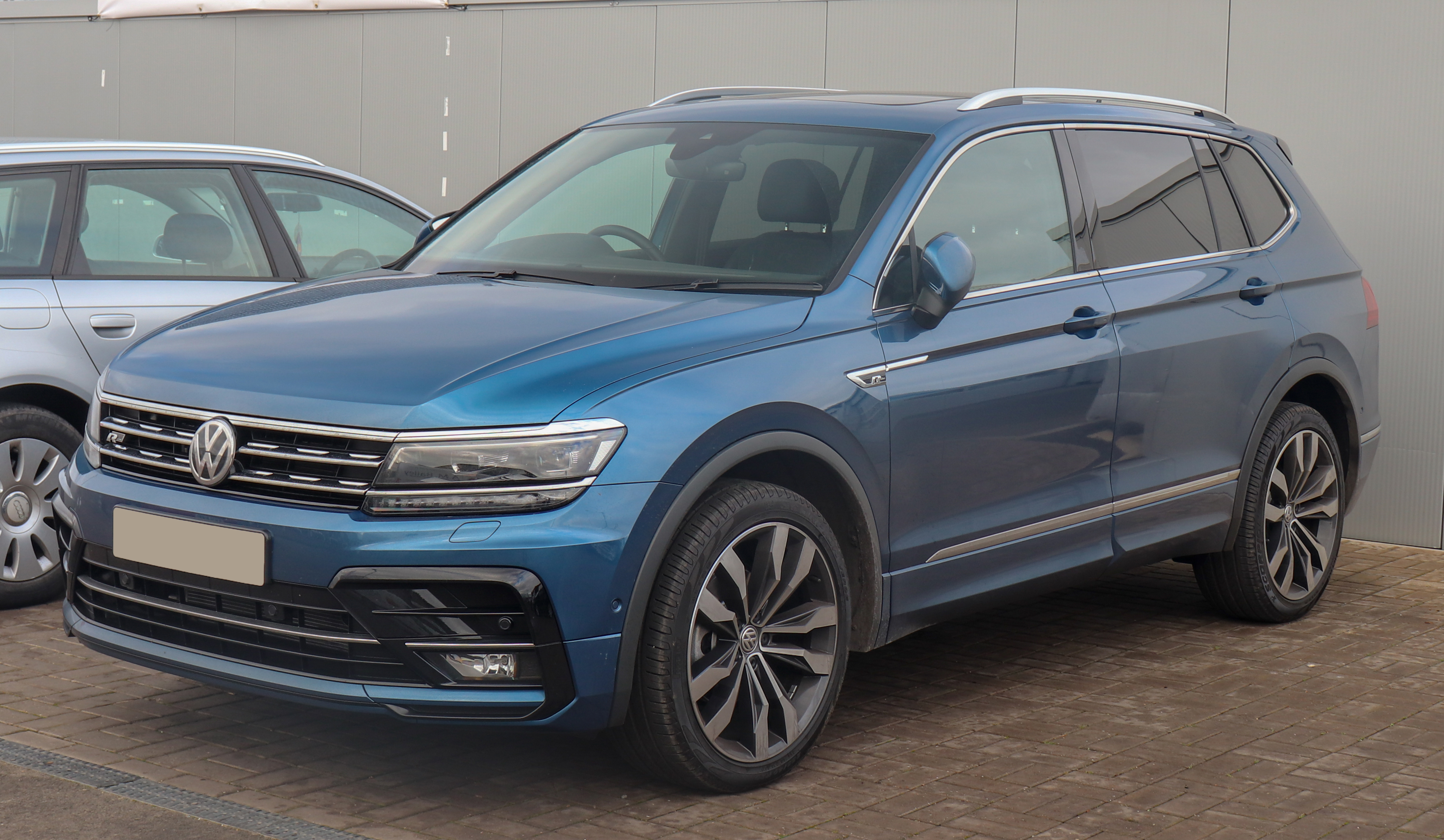 2019 Volkswagen Tiguan Allspace R-Line TDi 4Motion 2.0 Taken in Stratford-upon-Avon